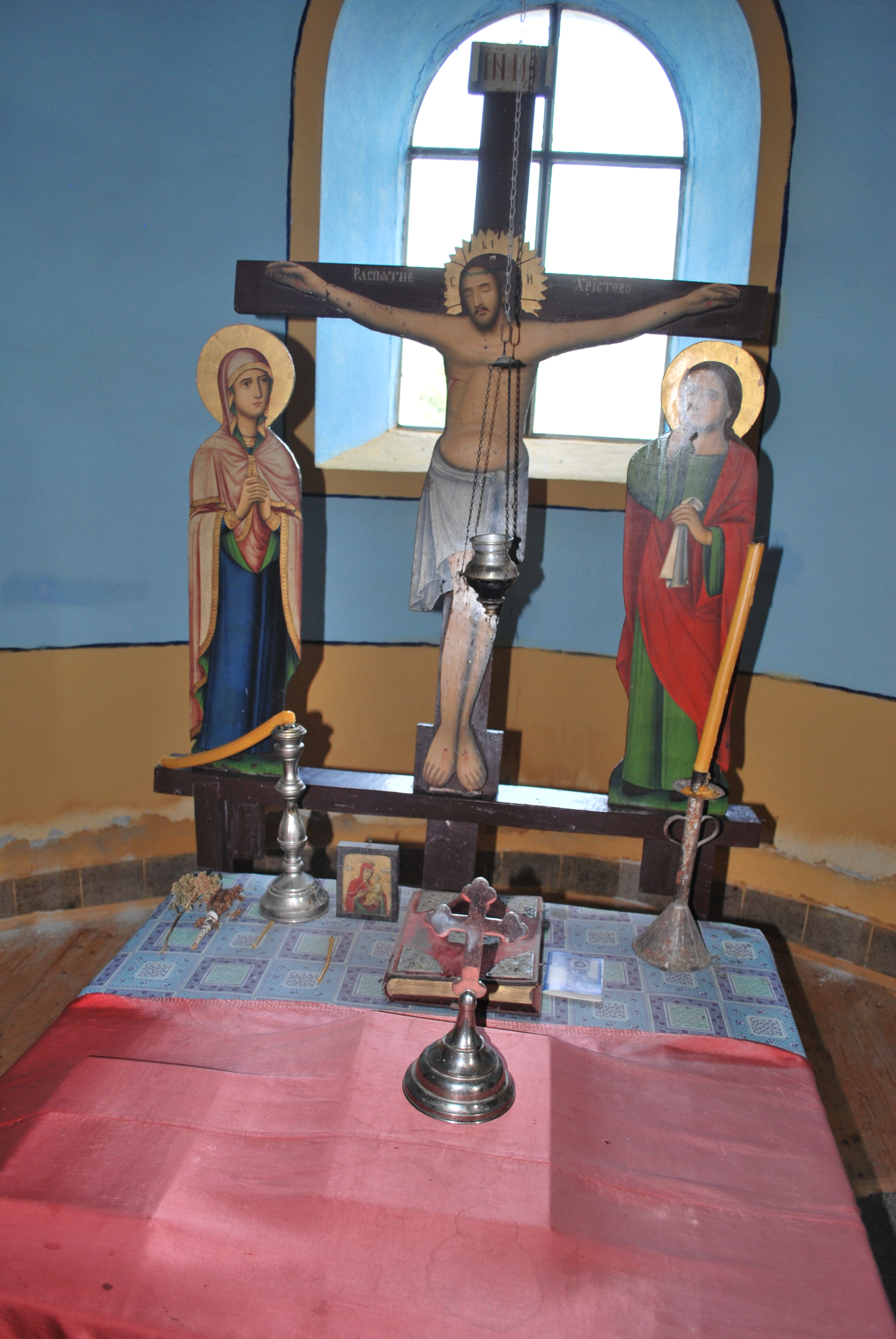 Icons in the St. Athanasius Church in Radiovce, Macedonia This image is uploaded as part of the picture contest Wiki Loves Cultural Heritage in Macedonia 2013. English | македонски | +/−